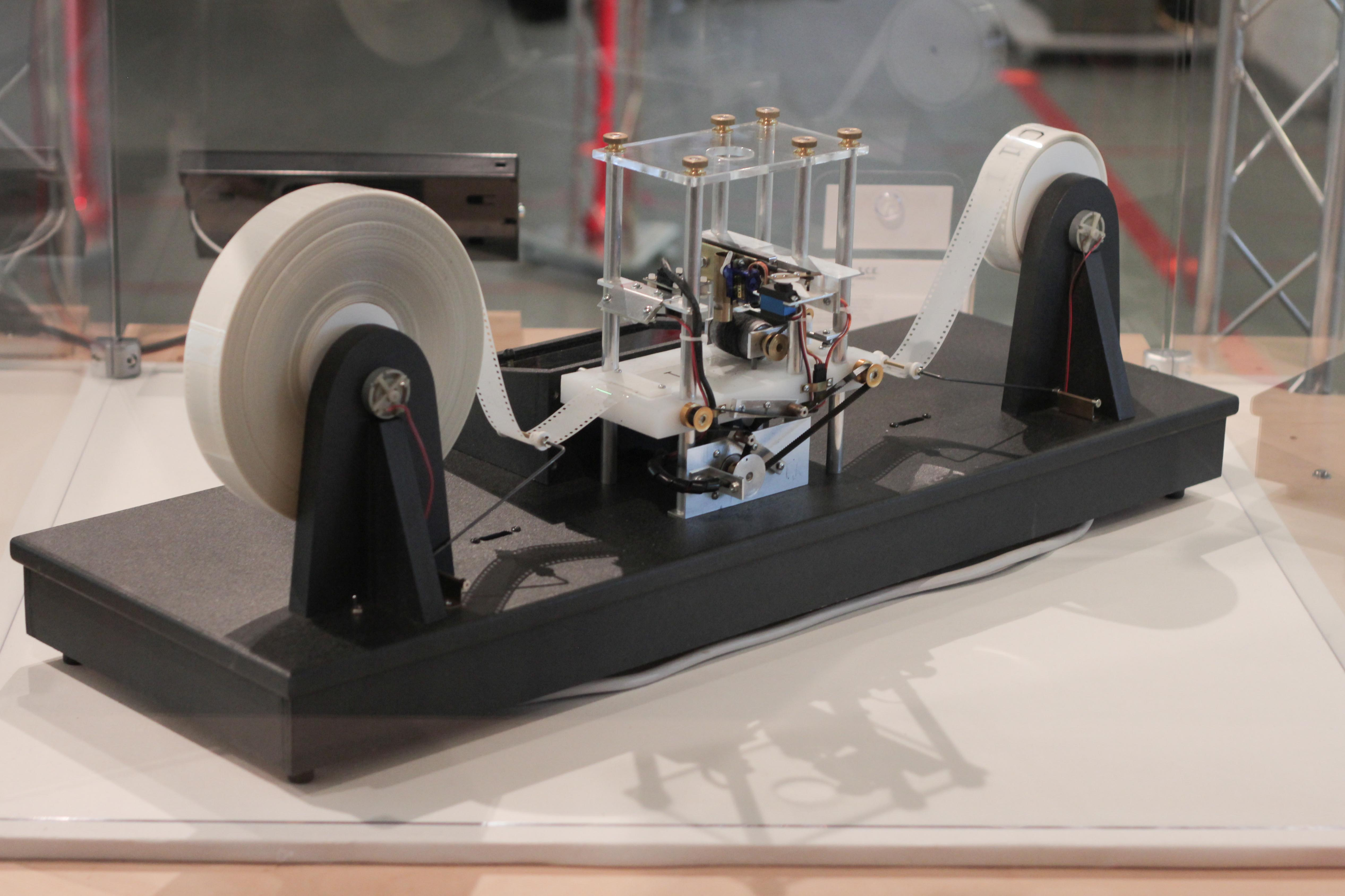 Turing Machine, reconstructed by Mike Davey as seen at Go Ask ALICE at Harvard University